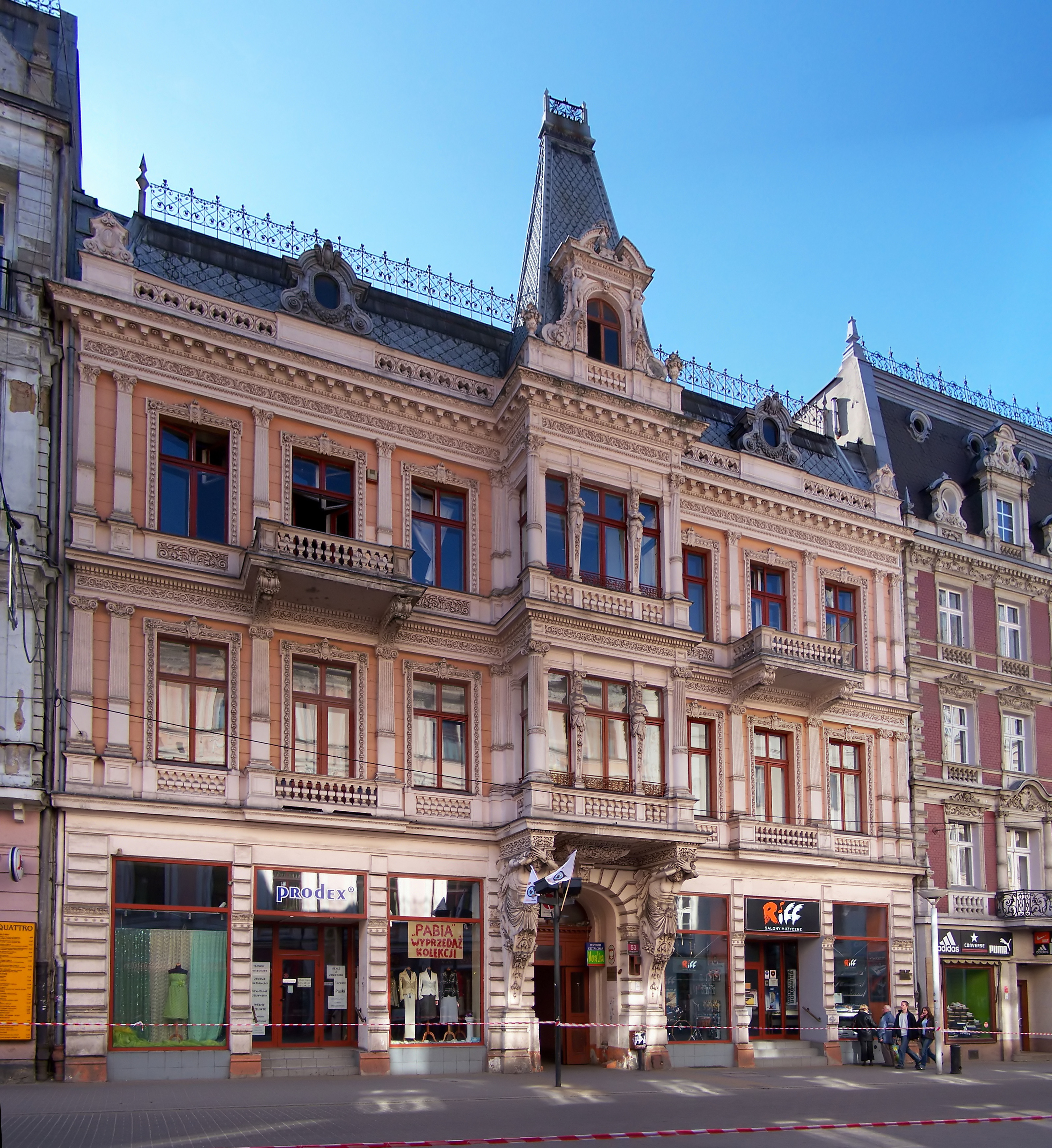 Tenement house in Łódź (Poland).